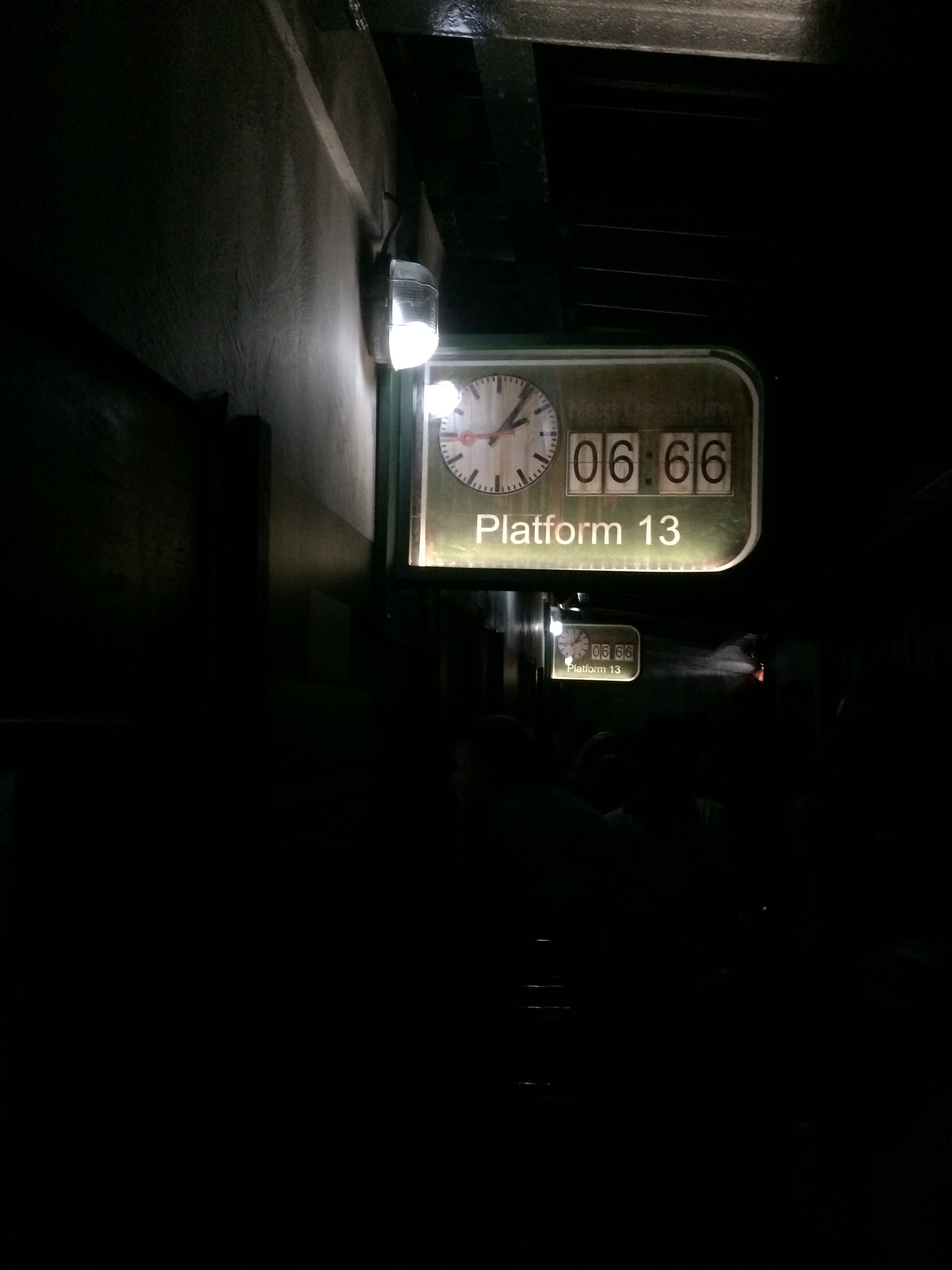 Entree van de rit Xpress: Platform 13 in Walibi Holland.